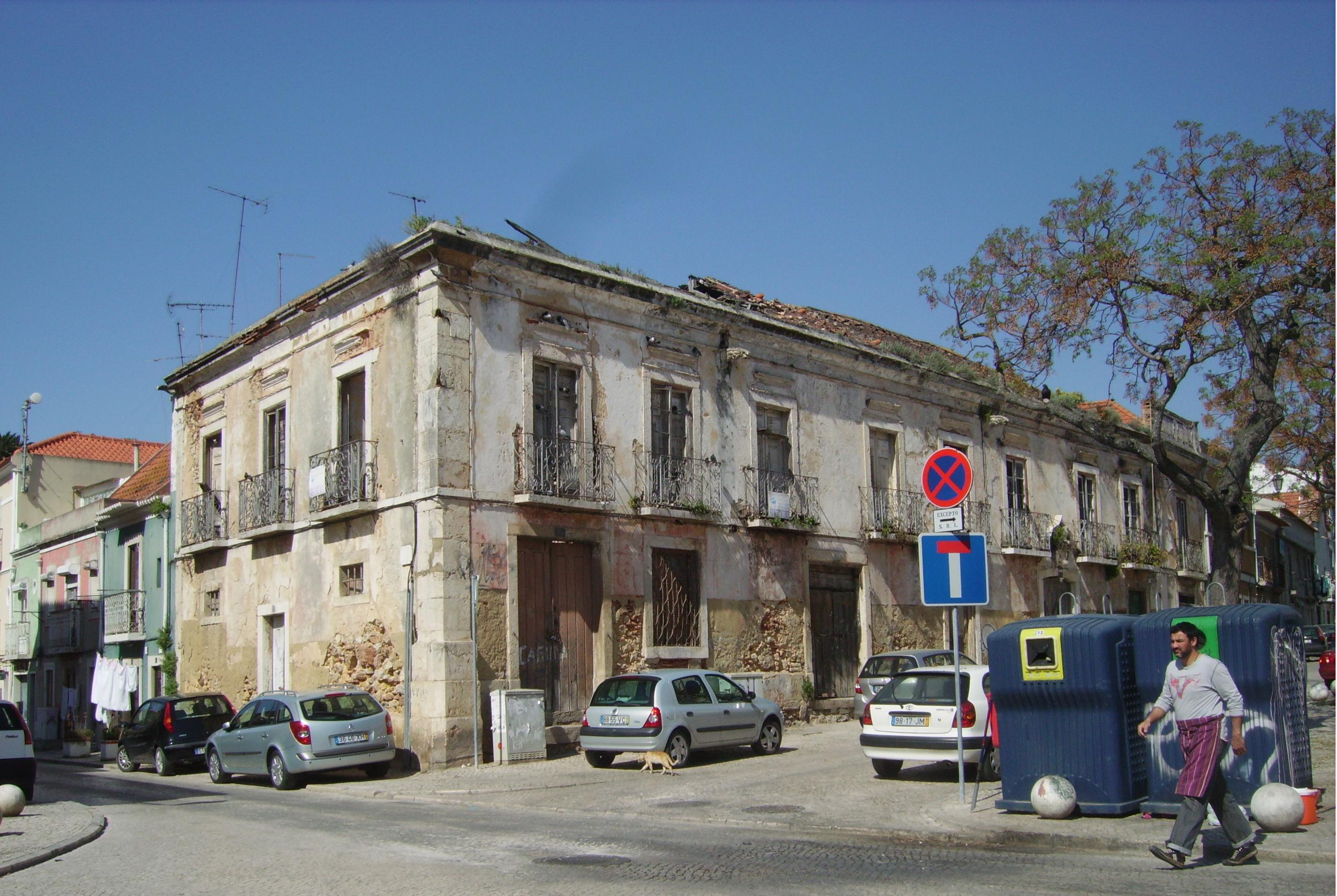 View of Feu Guião Palace, before the restoration works.